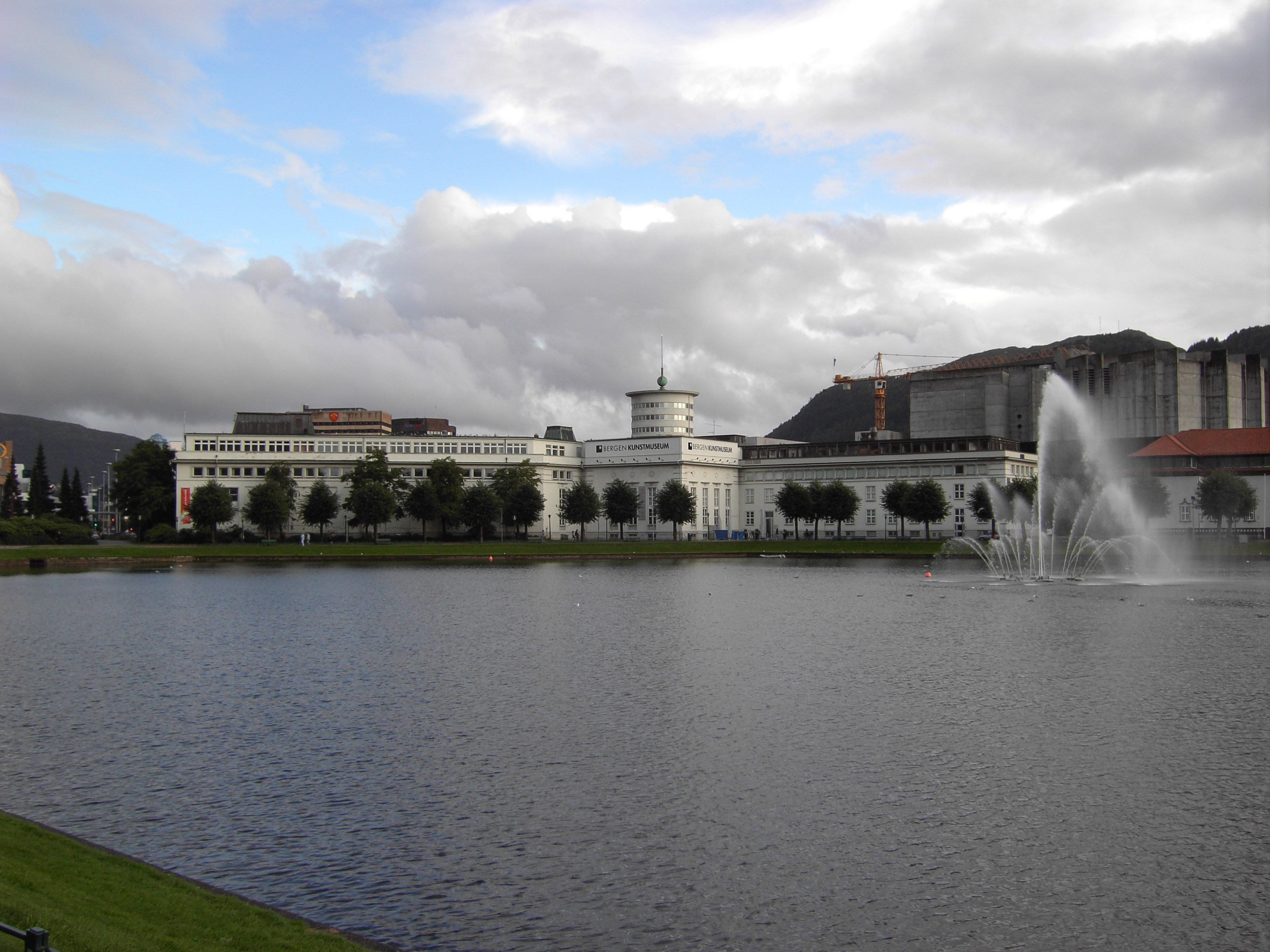 Original photograph taken by Nol Aders on 26 August 2005 18:52